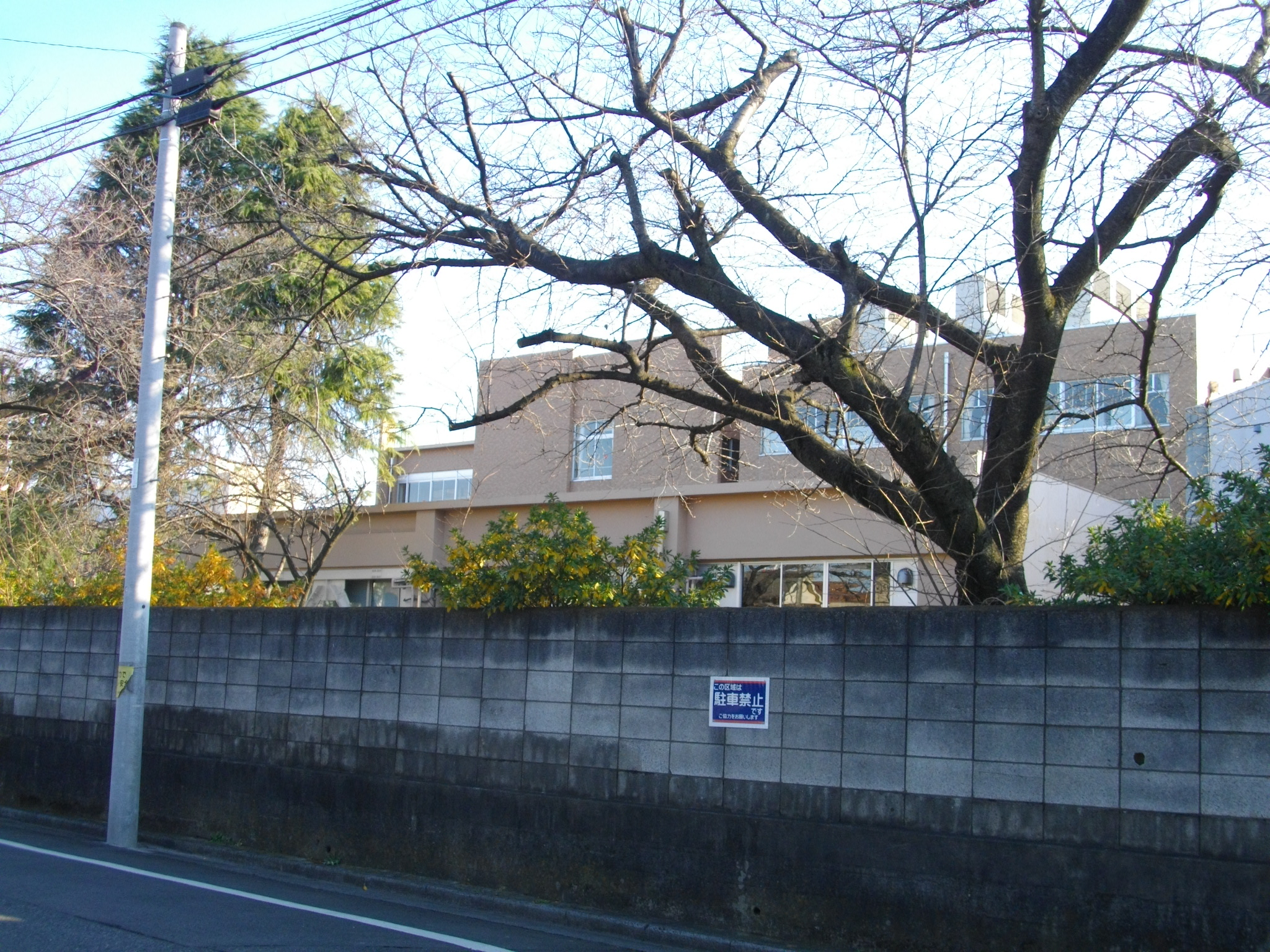 Junior High School Attached to Saitama University